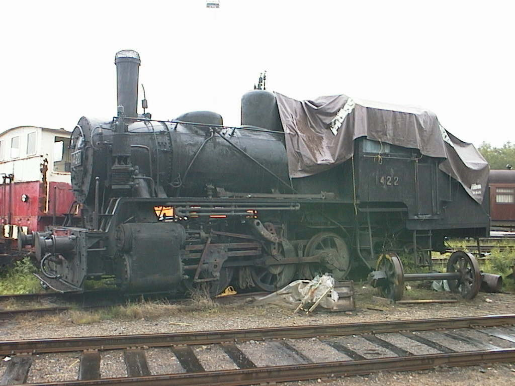 VR Class Vr5 steam locomotive (no. 1422; "Kalkkuna" = Turkey) at Haapamäki, Keuruu, Finland